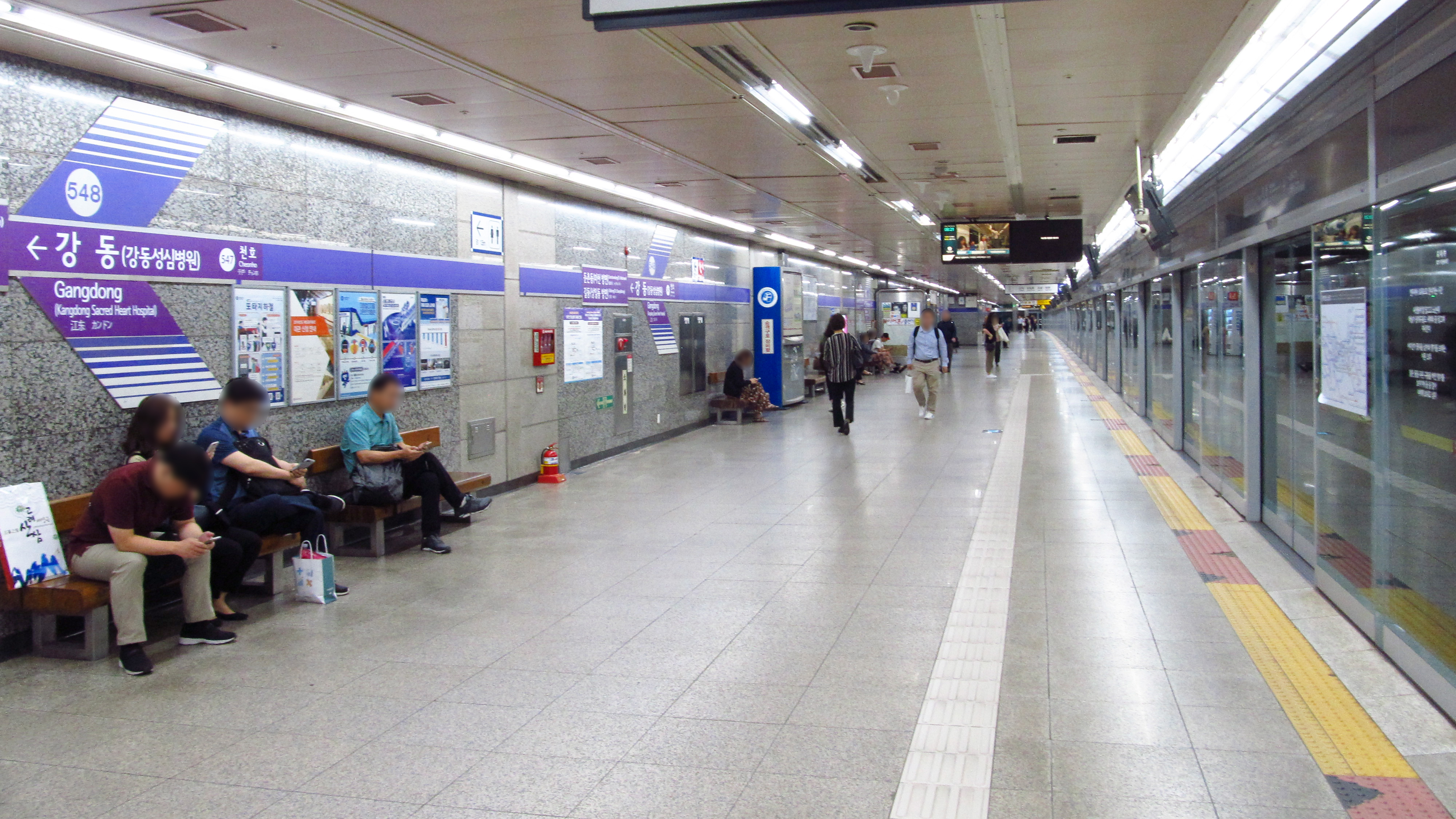 The platform at Gangdong Station on Seoul Subway Line 5 in Gangdong-gu, Seoul, Republic of Korea(South Korea)